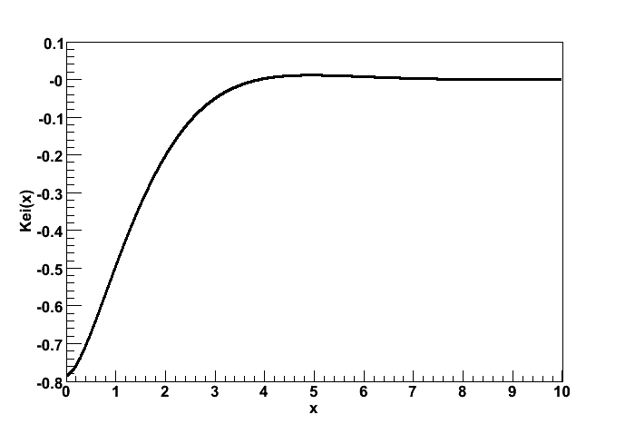 A plot of the Kelvin function Kei(x) between 0 and 10.